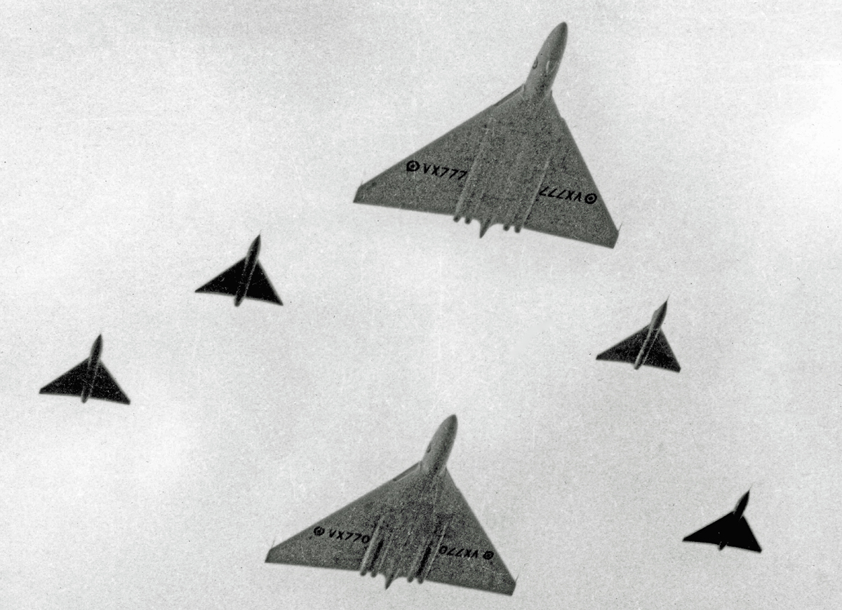 Avro Vulcan prototypes VX770 and 777 with four Avro 707s at the Farnborough Air Show in 1953